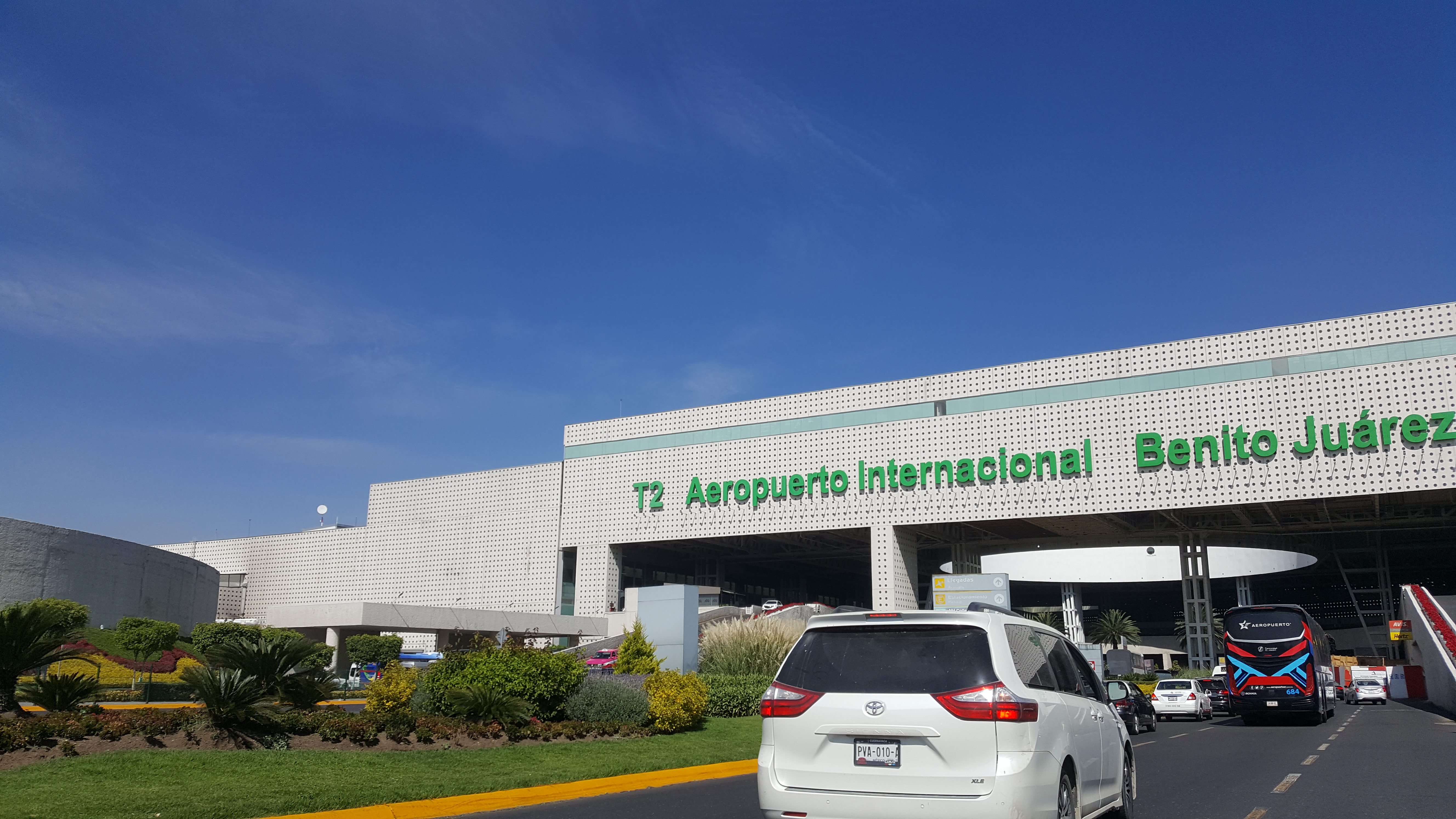 Mexico City (2018)